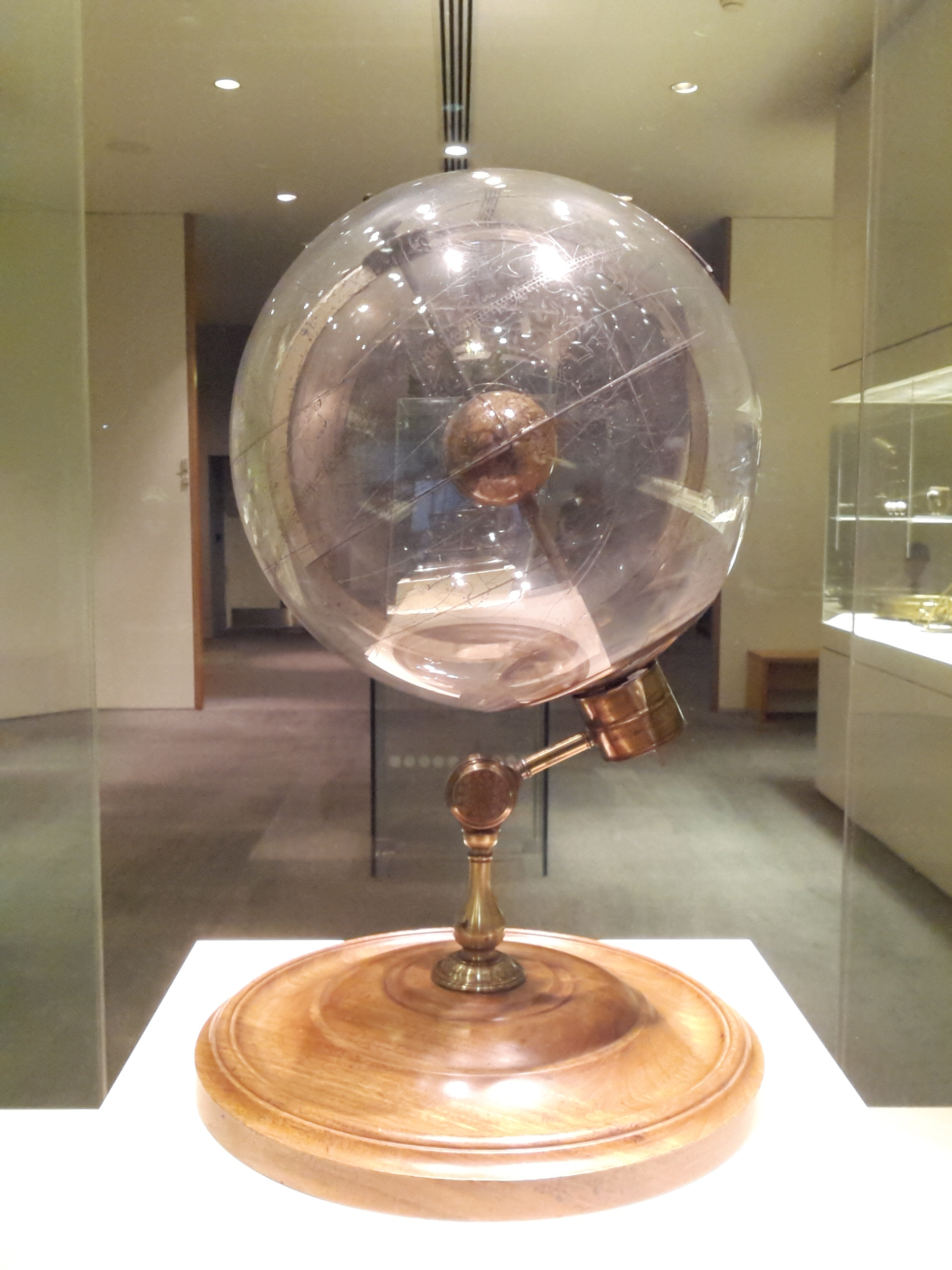 Designed by Robert Long in 1742 and owned by Stephen Demainbray, currently on display at The Science Museum.